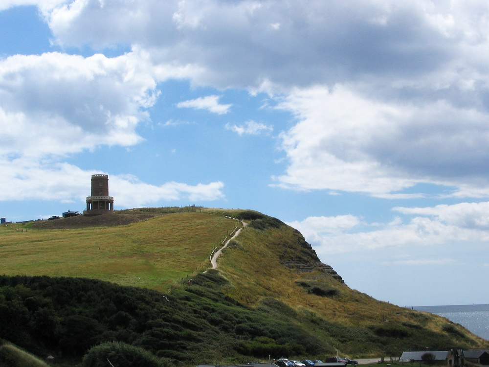 Clavell Tower